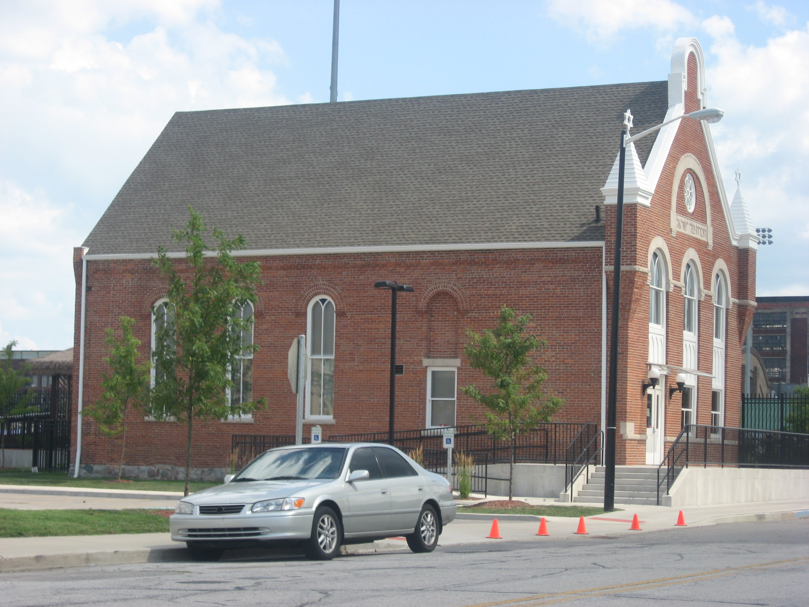 Northern side and front of the former B'nai Israel Synagogue, located at 420 S. William Street in South Bend, Indiana, United States. Built in 1901 and now a gift shop for the adjacent Stanley Coveleski Regional Stadium, it is listed on the National Register of Historic Places.